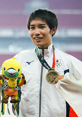 Athletics at the 2018 Asian Games – Men's 3000 metres steeplechase